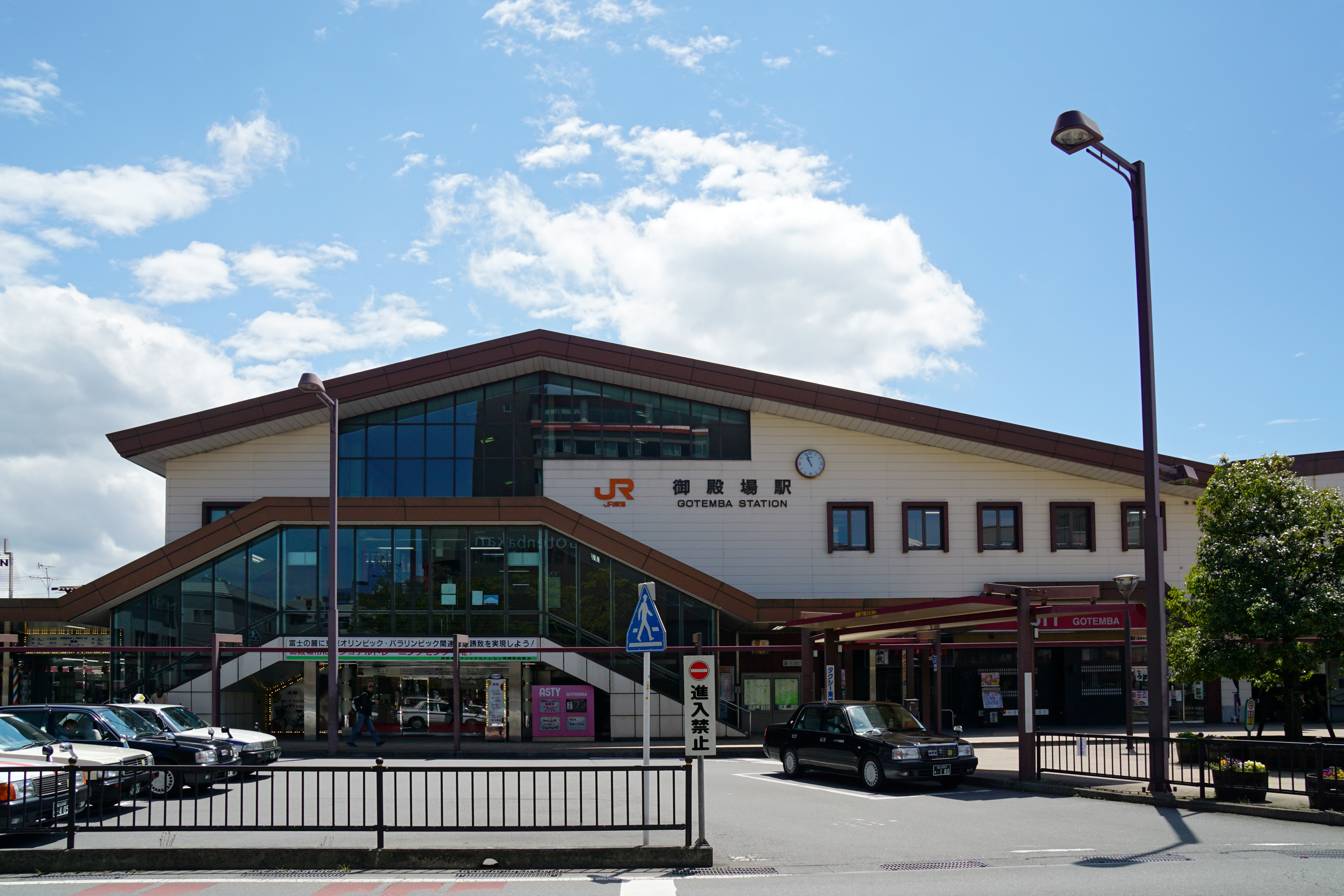 Gotemba_Station in Gotemba, Shizuoka prefecture, Japan